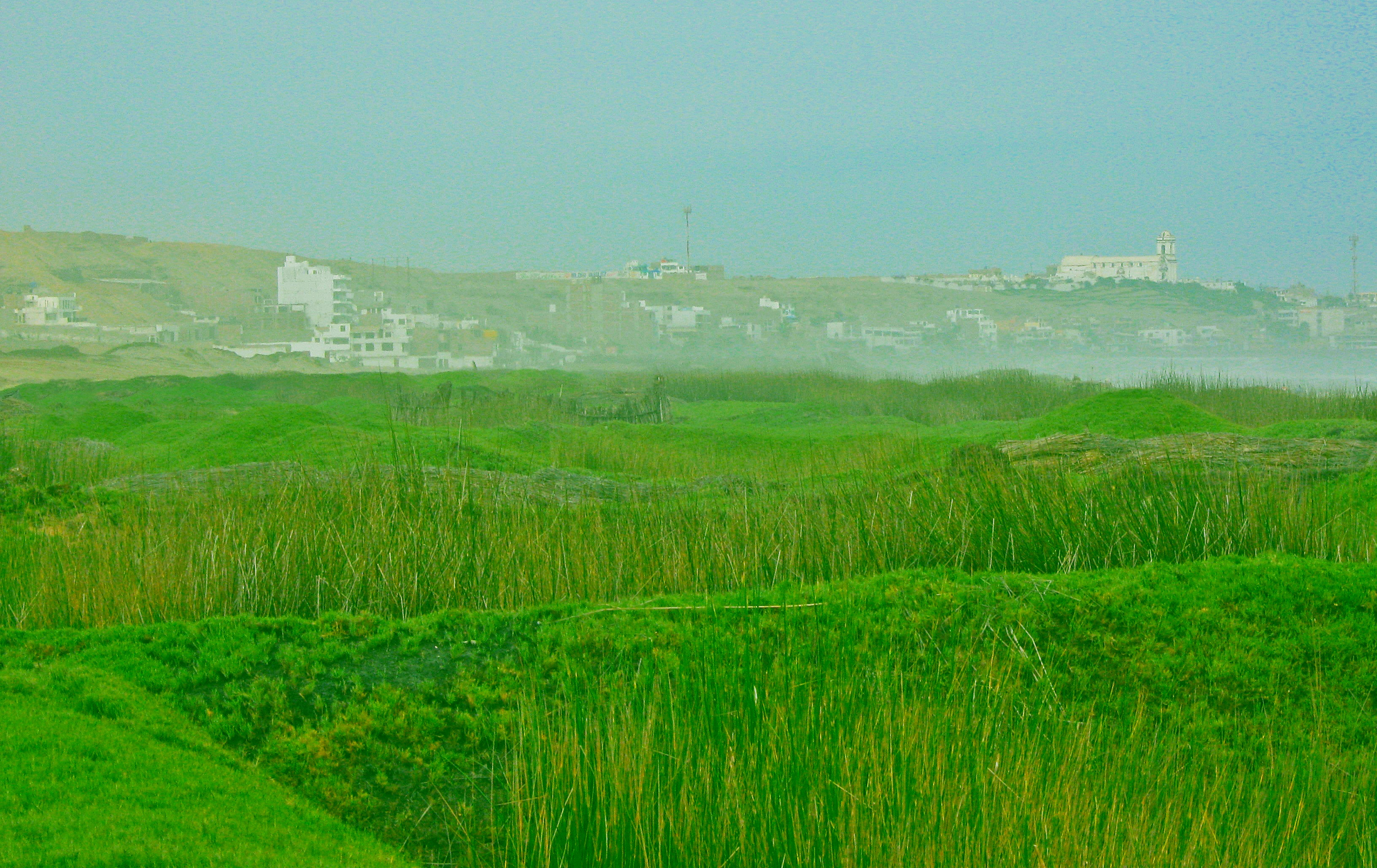 Humedales de Huanchaco